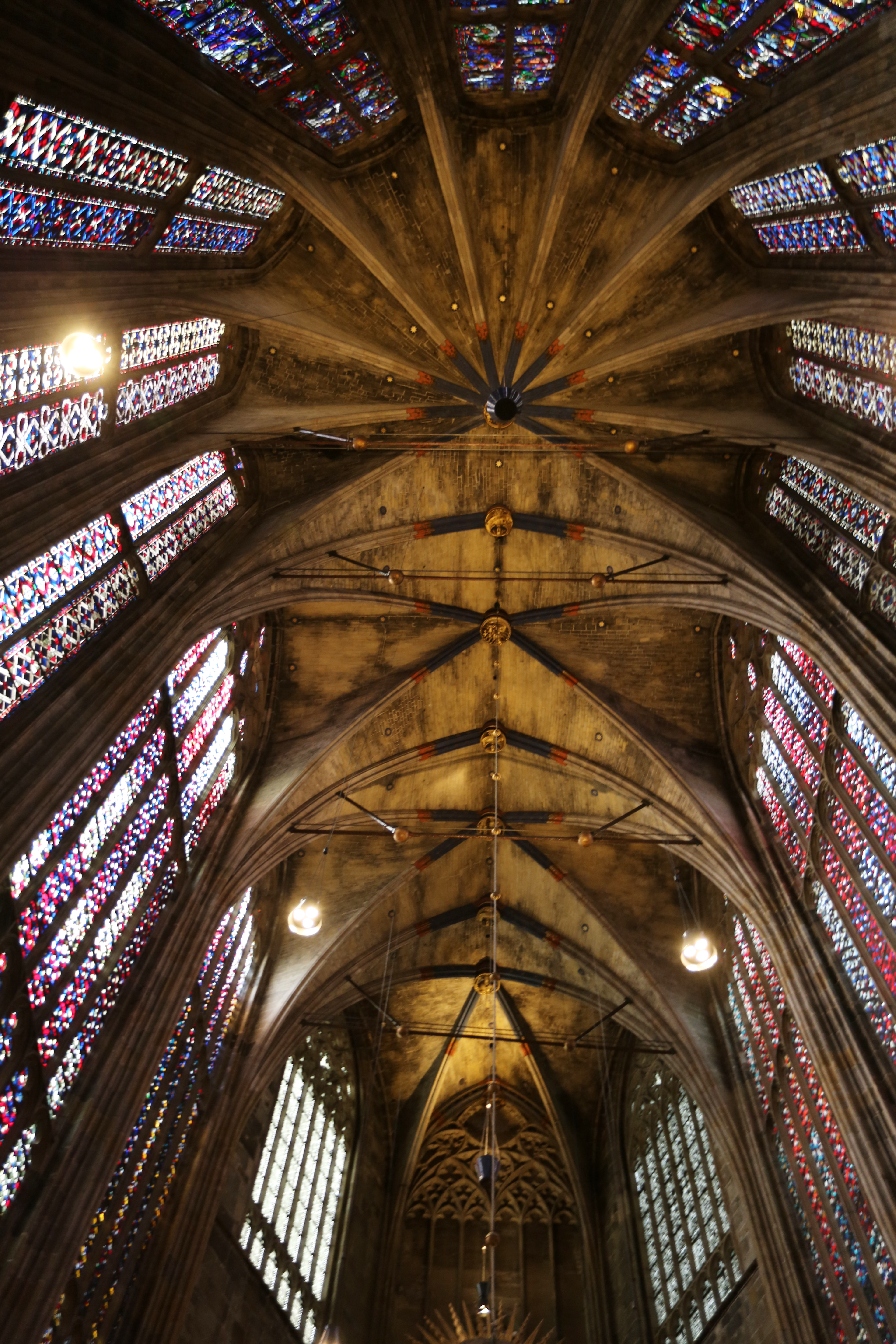 Ribbed vault of Aachen Cathedral, Germany.